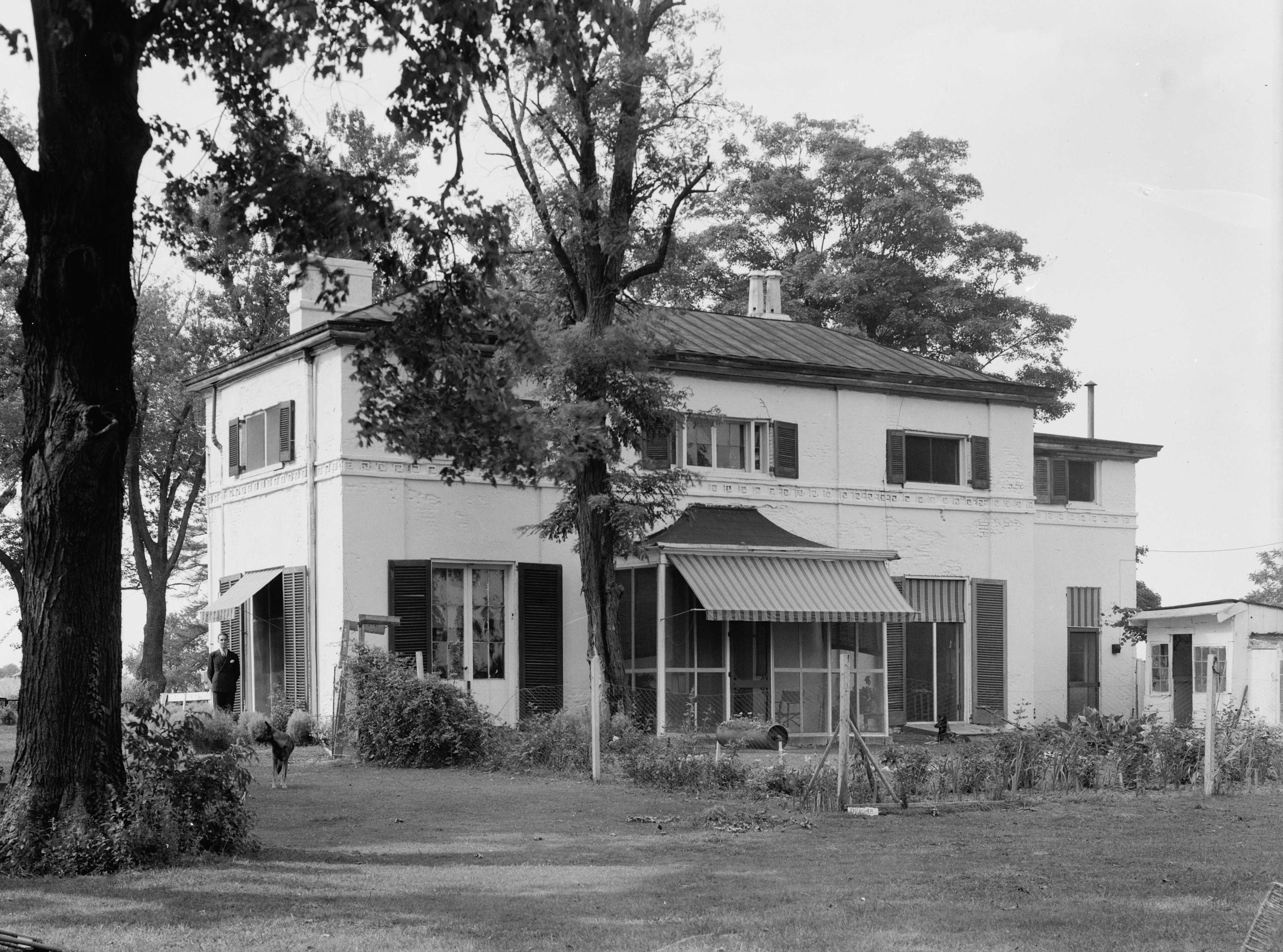 Historic American Buildings Survey W. S. Stewart, Photographer Sept.9, 1936 VIEW FROM EAST - Swanwyck, 65 Landers Lane, New Castle, New Castle County, DE